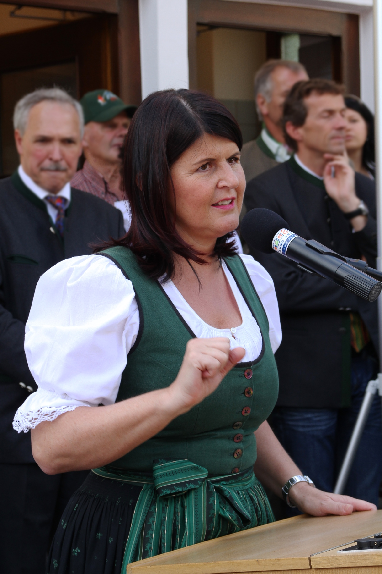 Salzburg's governor Gabi Burgstaller at the reopening ceremony of the Pinzgauer Lokalbahn at Krimml.